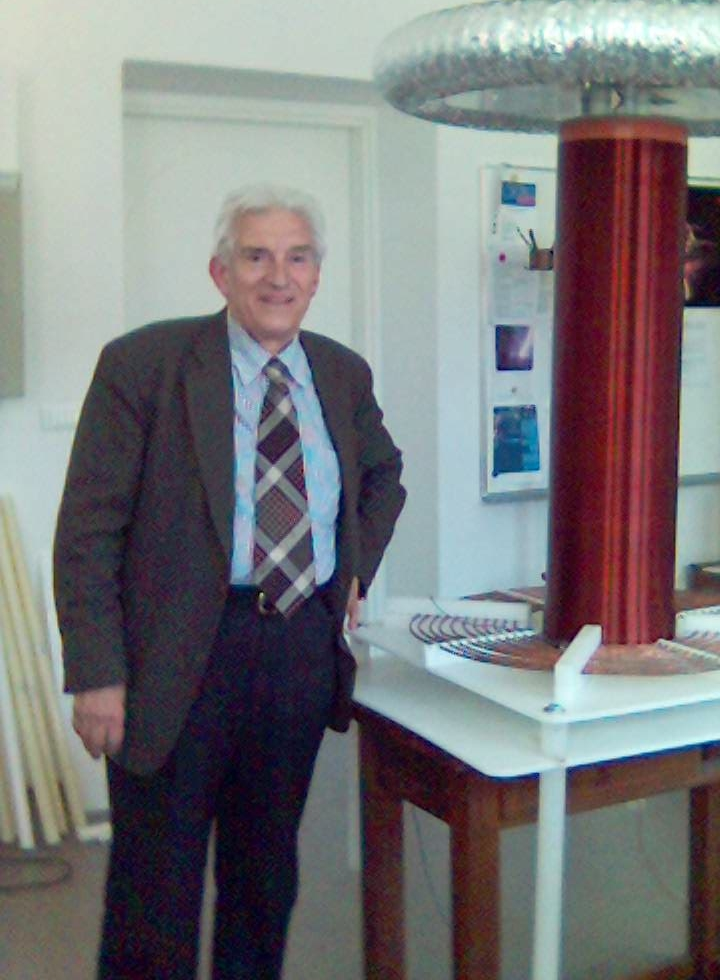 Profesor Aleksandar Marinčić near the Tesla coil.